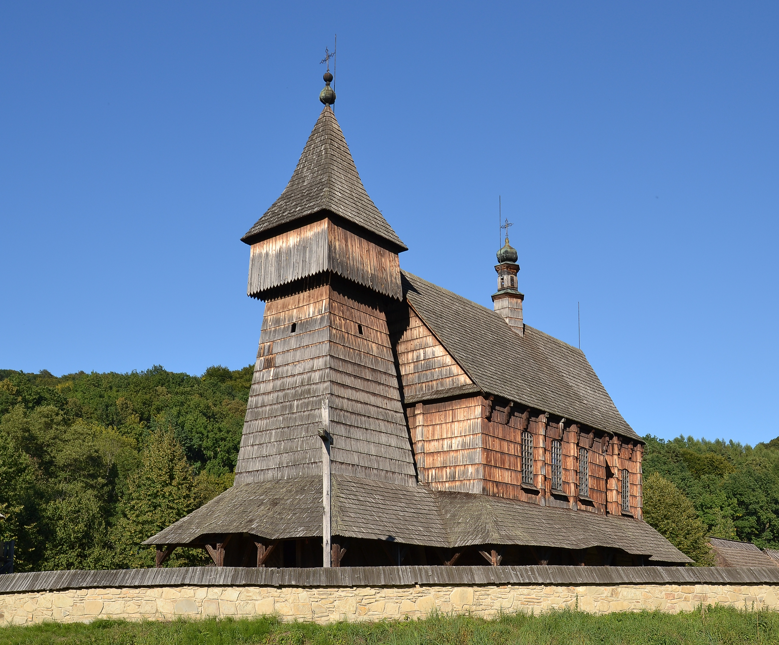 Sanok - wooden church from Bączal Dolny